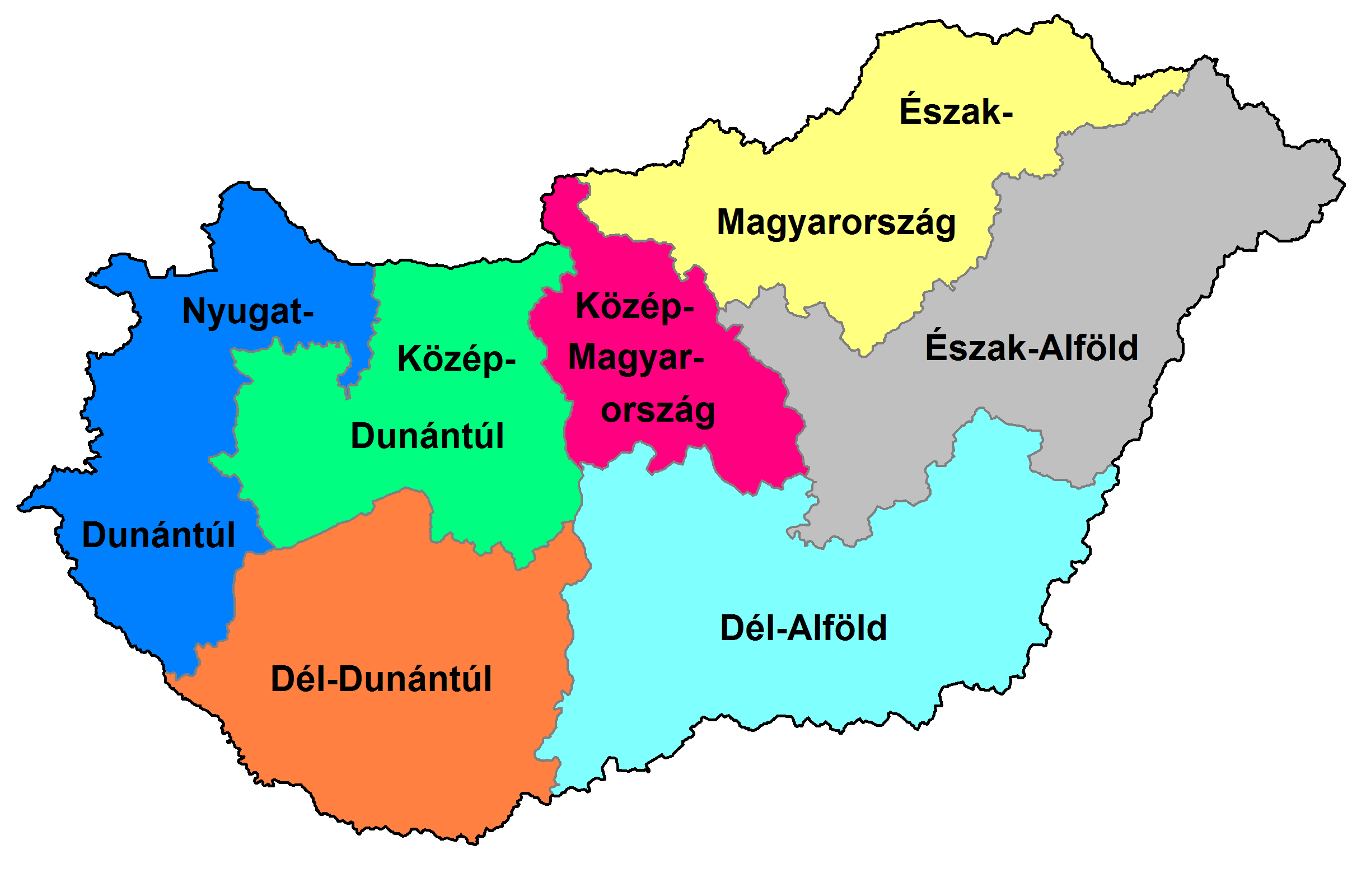 Counties of Hungary (NUTS 2 divisions) in 2007.